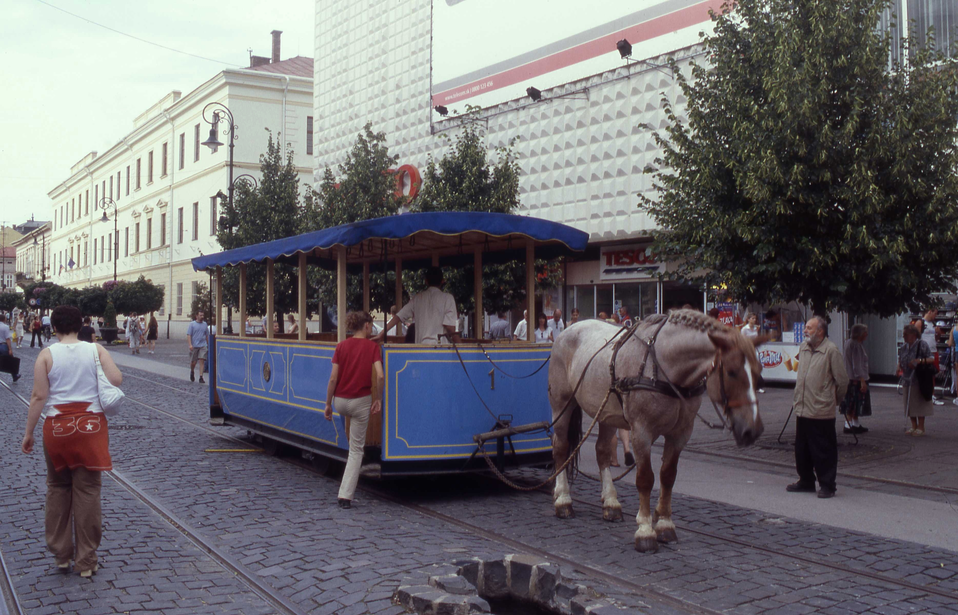 On disused tramtracks in the towncentre of Košice horse-drawn trams where run in 2004